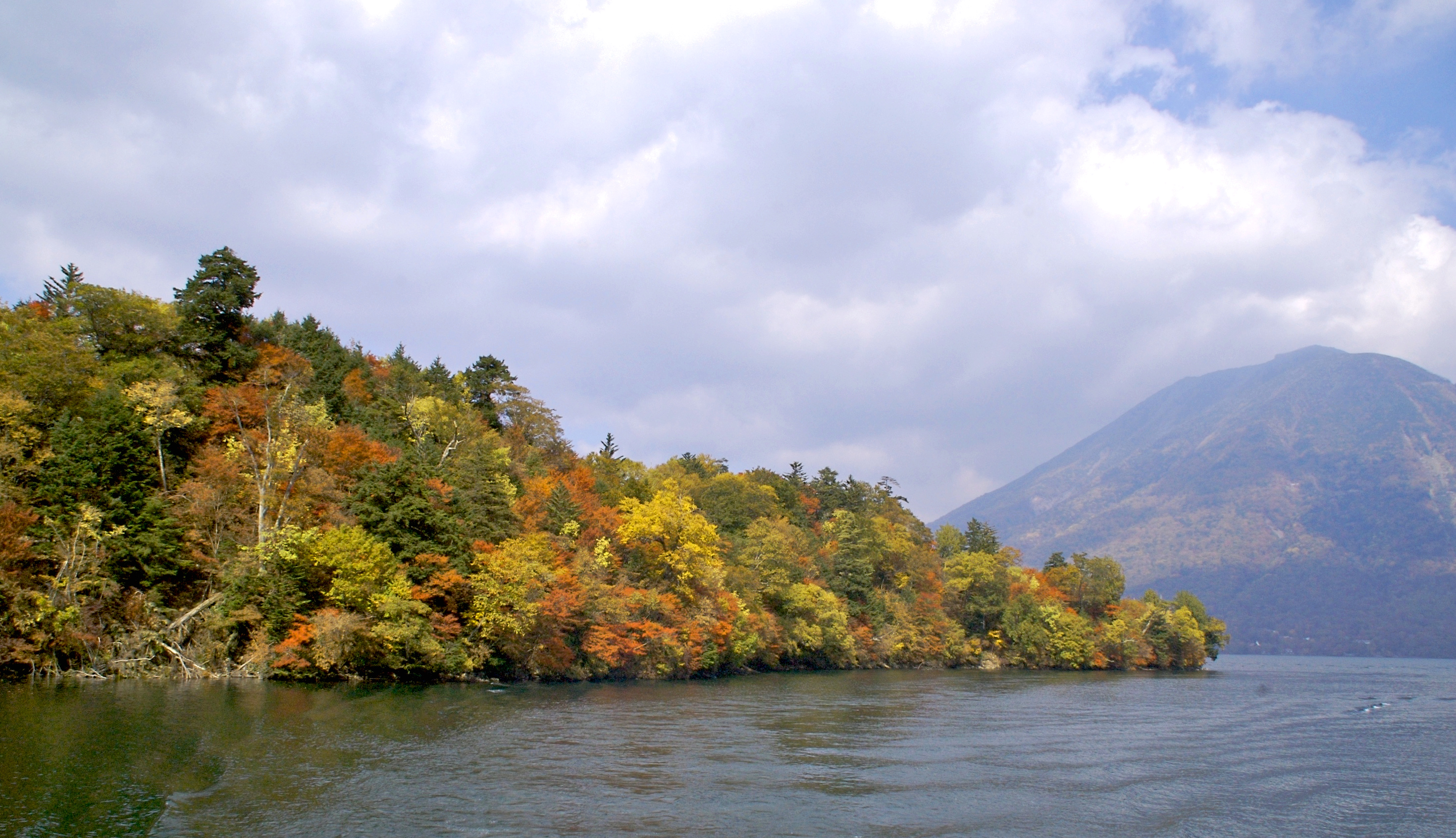 Japan: lake Chūzenji's Hacchōdejima peninsula in Nikkō (Tochigi prefecture).